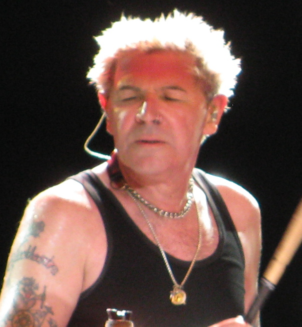 Thommy Price at Bluesfest in Ottawa, Ontario, Canada in 2010.